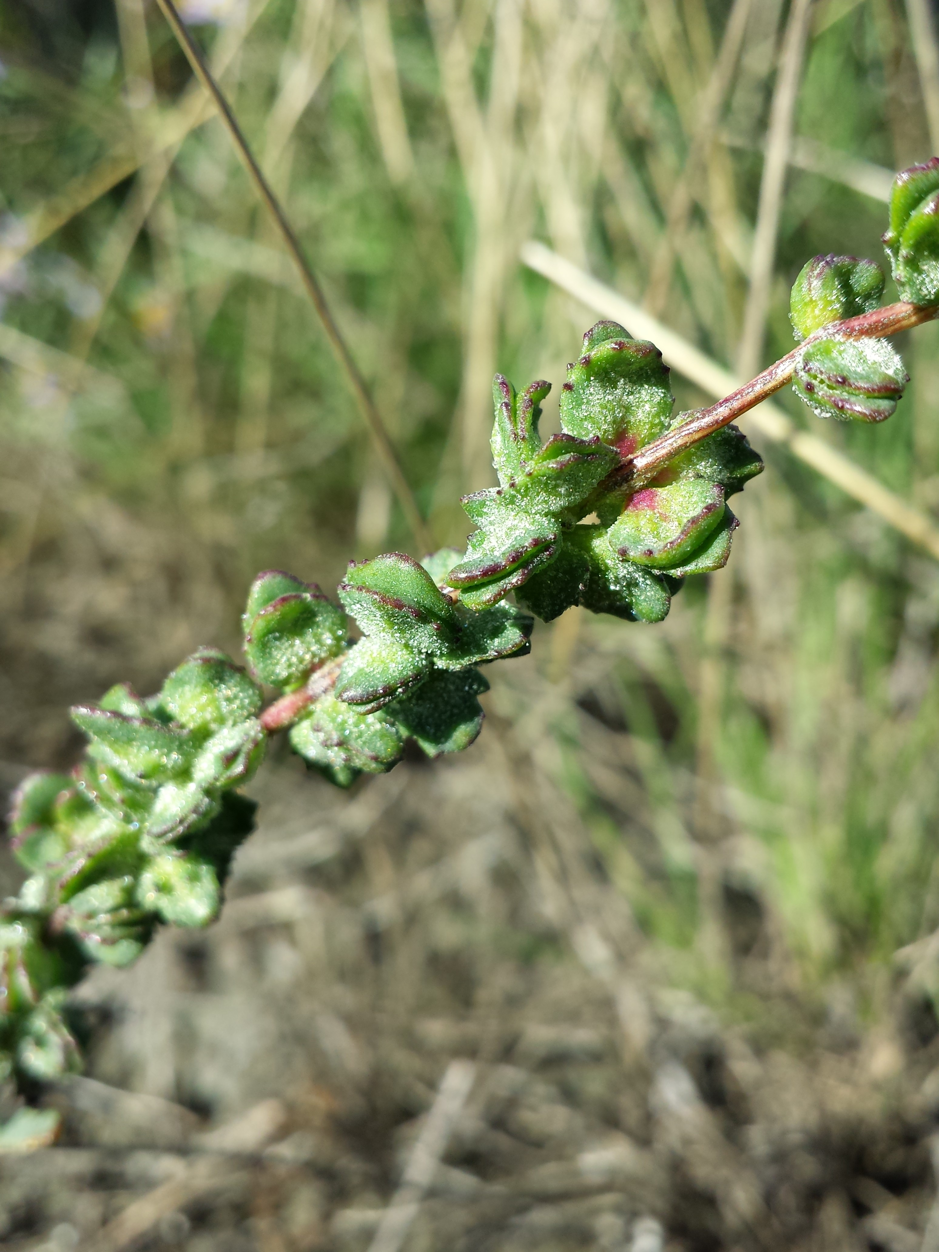 Florescence Taxon: Atriplex intracontinentalis (sensu Fischer et al. EfÖLS 2008, here still labeled as Atriplex littoralis; det M. A. Fischer 2013-10-12) Location: small salt lake near Podersdorf, district Neusiedl am See, Burgenland, Austria - ca. 120 m a.s.l. Habitat: dried-out small salt lake